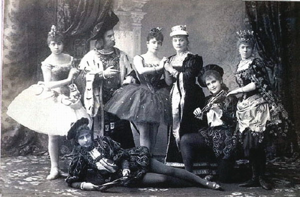 Publicity shot of the original cast of Tchaikovsky's ballet, The Sleeping Beauty, St Petersburg: Mariinsky Theater, 1890. Carlotta Brianza starred as Aurora.